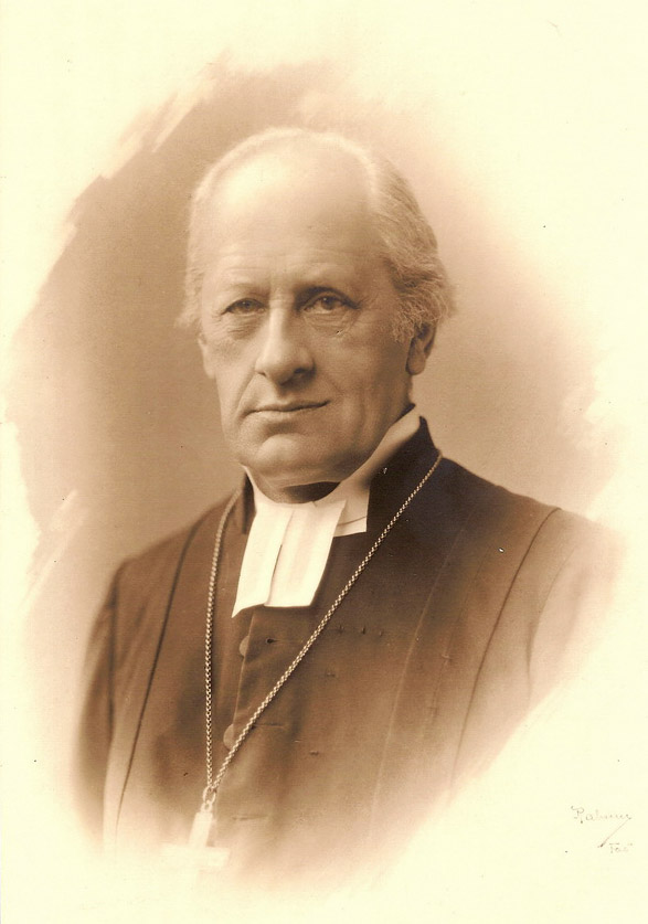 Gottfrid Billing (1841-1925), Swedish bishop and member of the Swedish Academy.